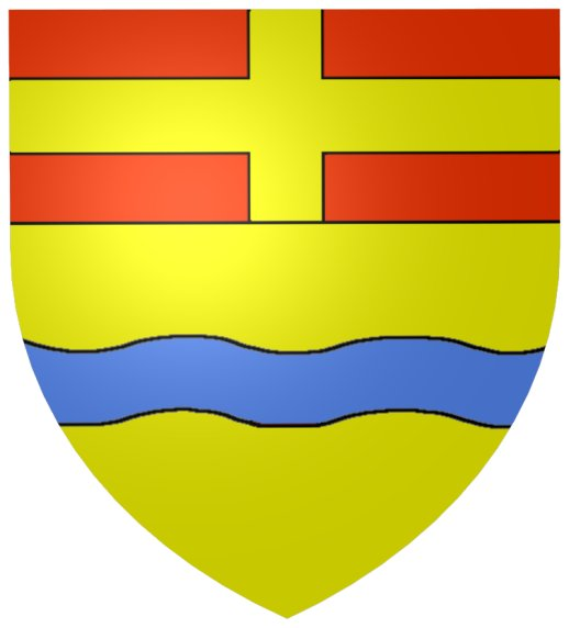 Höxter, district Coat of Arms This coat of arms was granted 1953-01-17. It was replaced by a new coat of arms, granted 1976-02-12, after the Warburg district was merged to the Höxter district 1975-01-01.